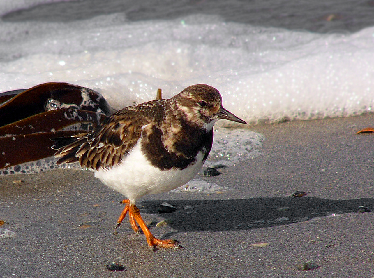 Ruddy Turnstone